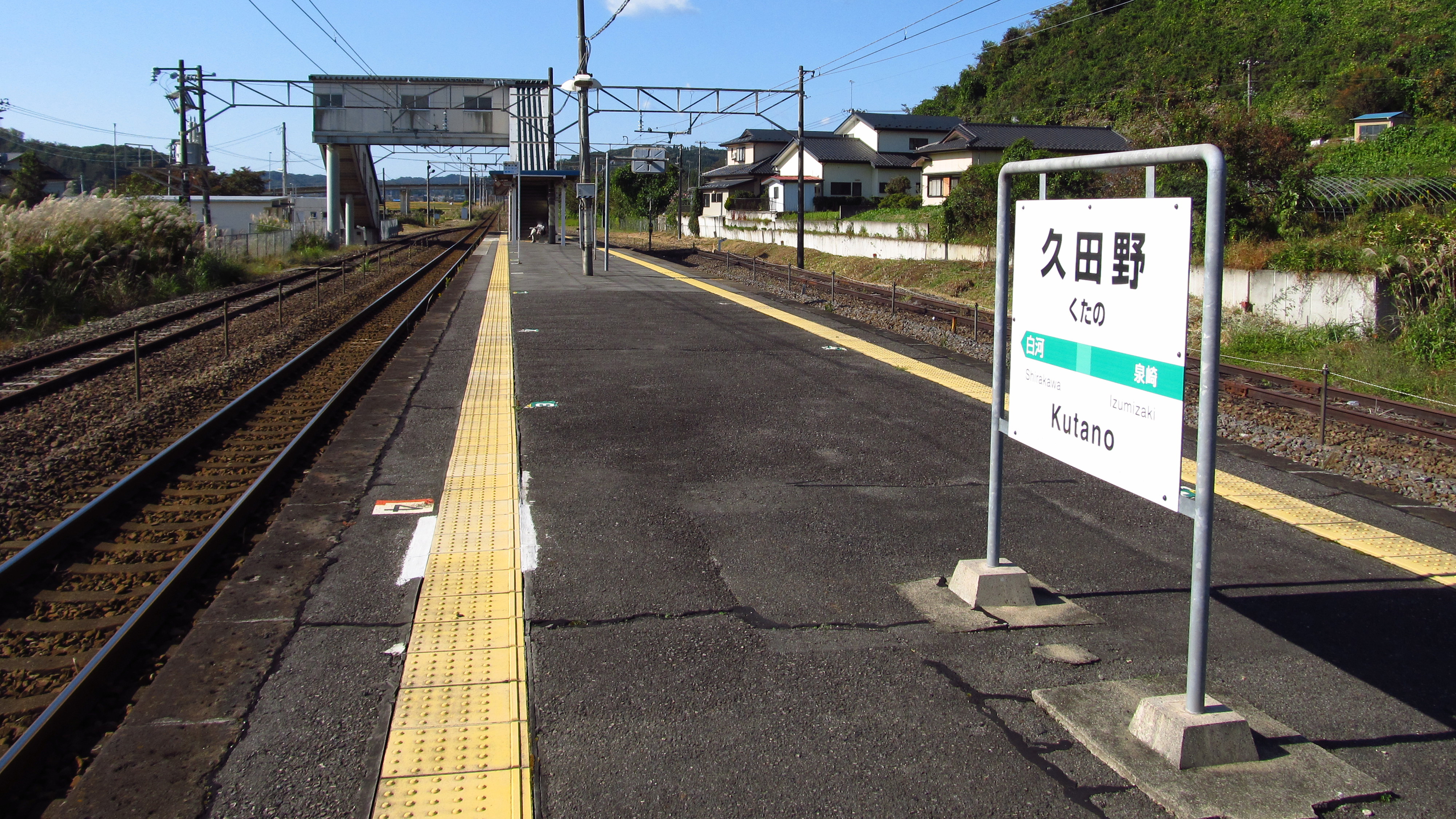 The platform at Kutano Station on the Tōhoku Main Line in Shirakawa city, Fukushima prefecture, Japan